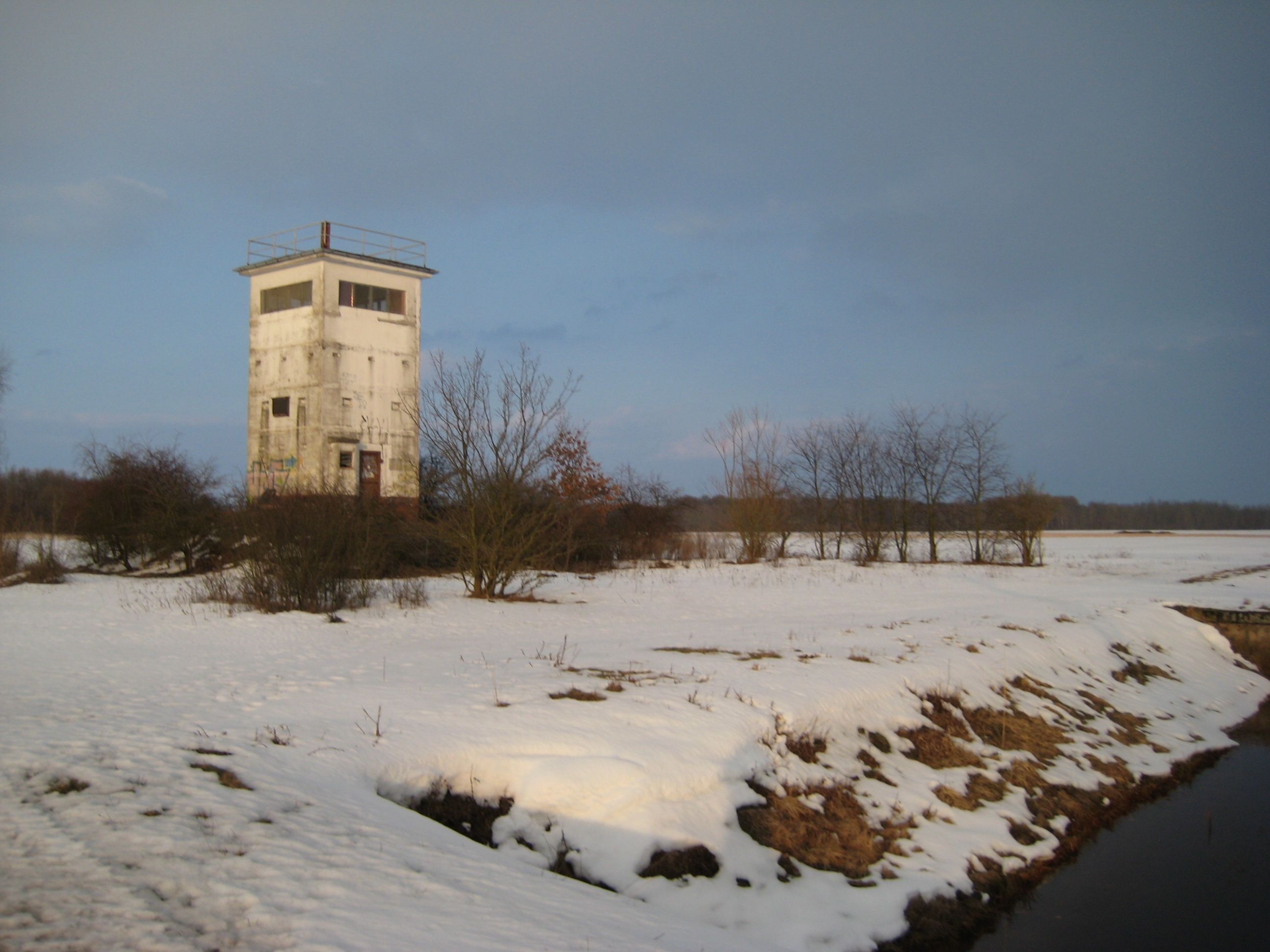 Watchtower near Seeben